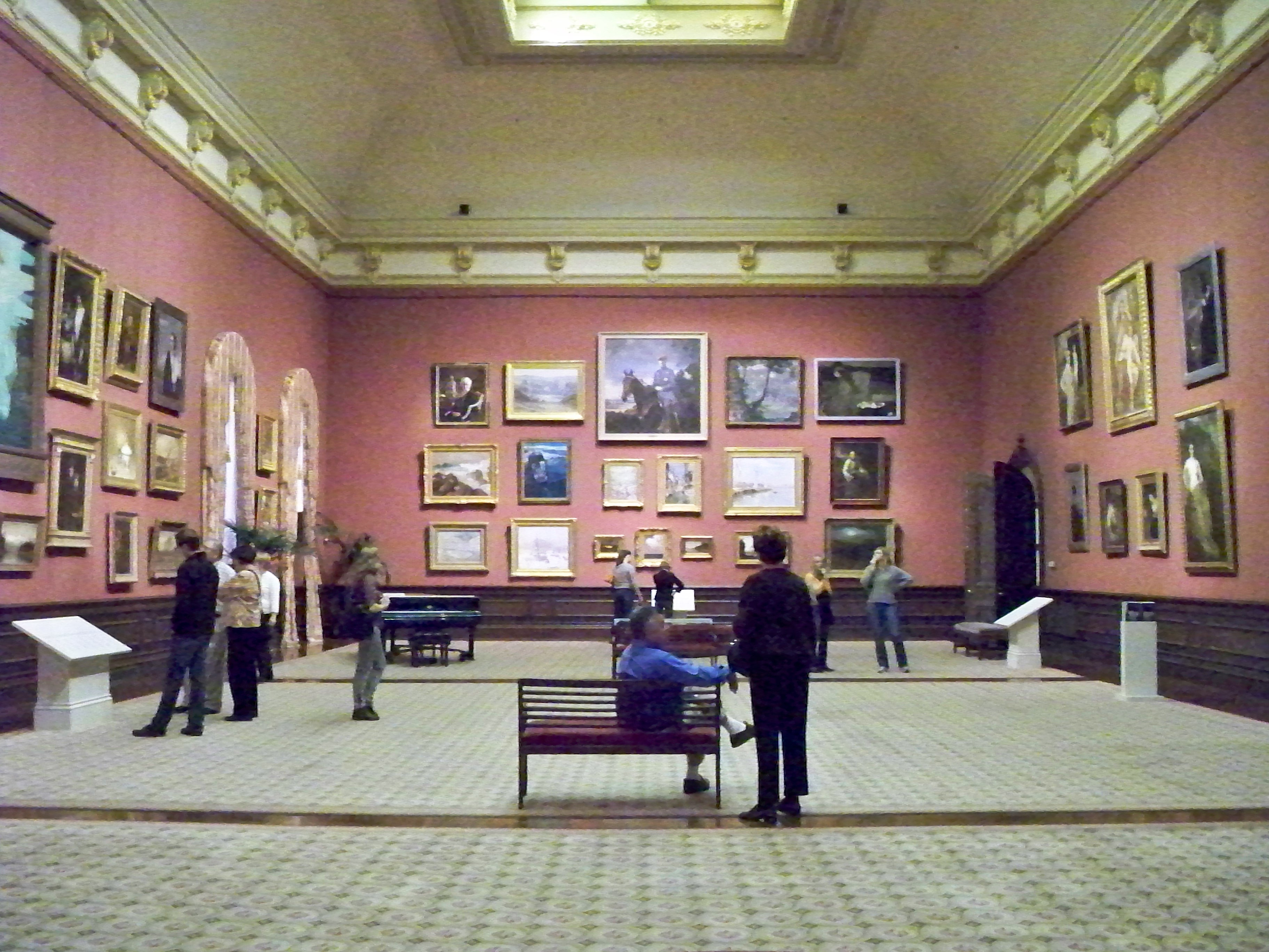 Main gallery of the Renwick Gallery and also the former chamber of the United States Court of Claims